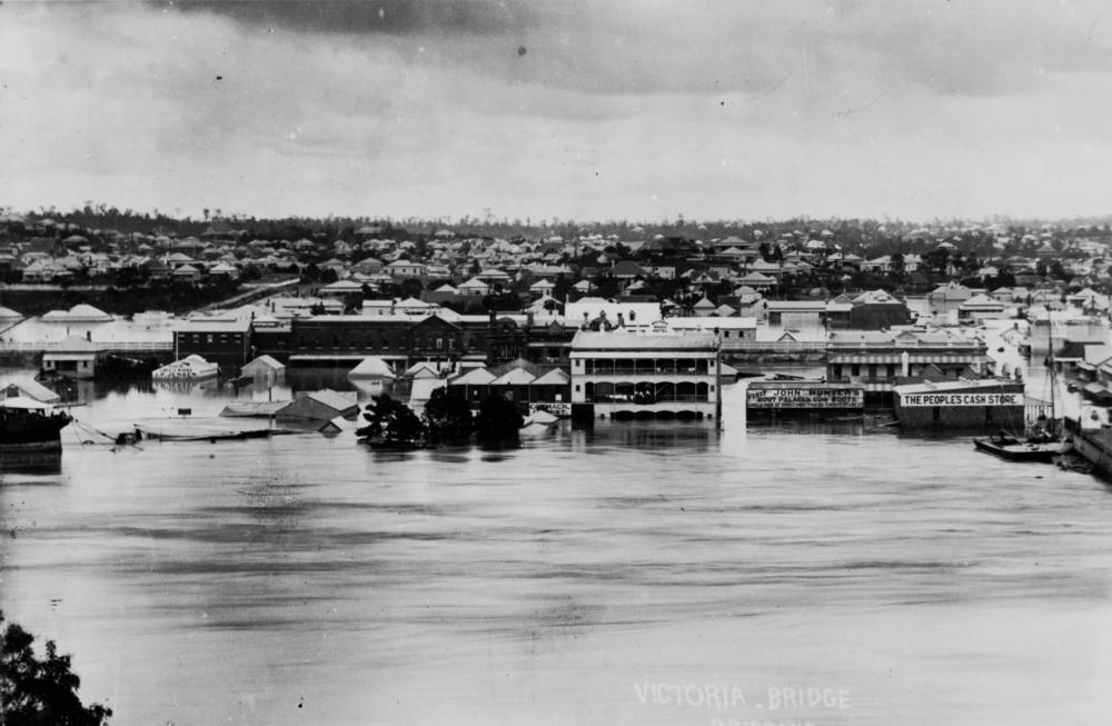 Hope Street, South Brisbane, under floodwaters in 1893. The Victorial Bridge Hotel is visible in the foreground.